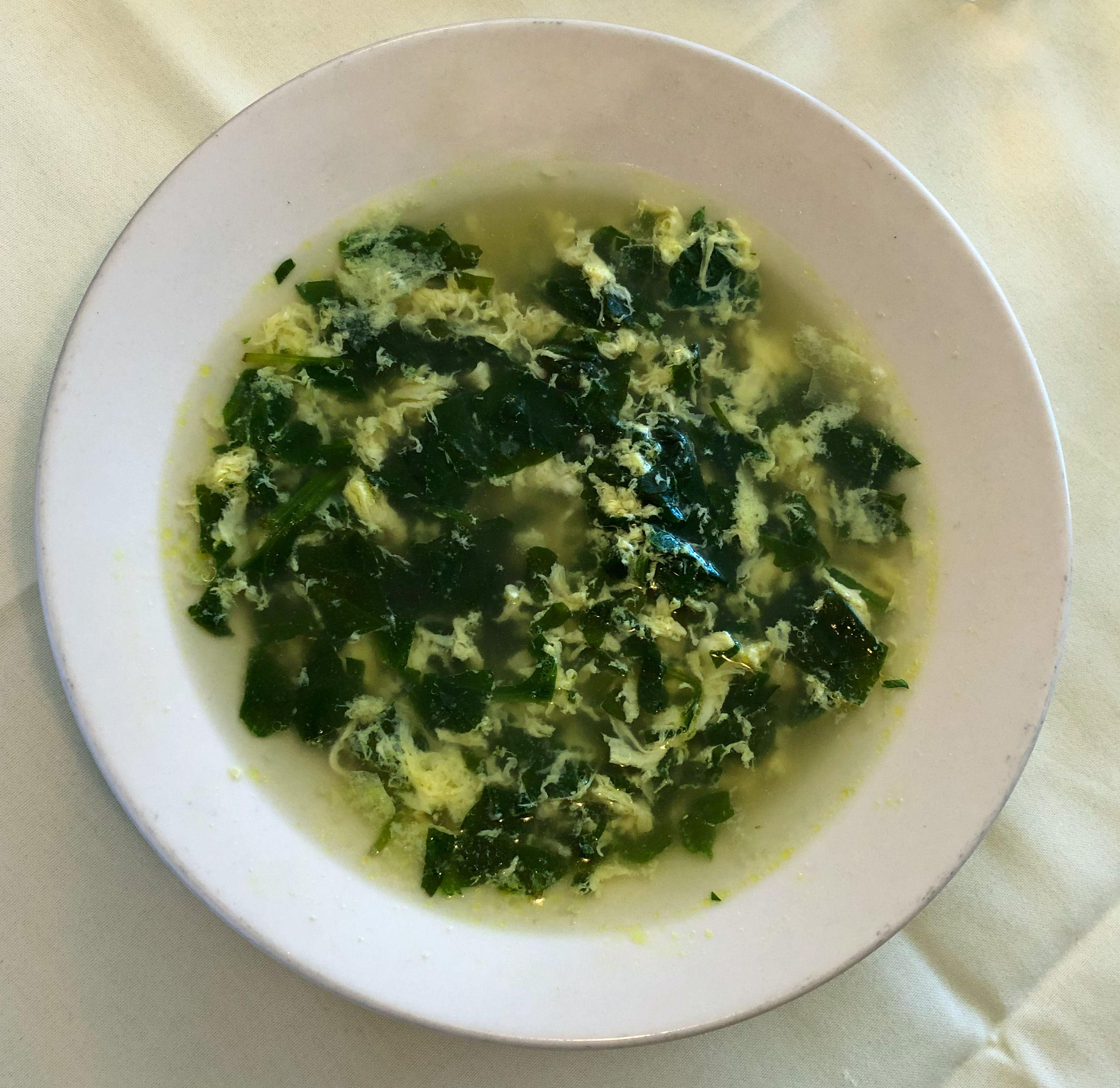 Example of Stracciatella soup (this one made with spinach)